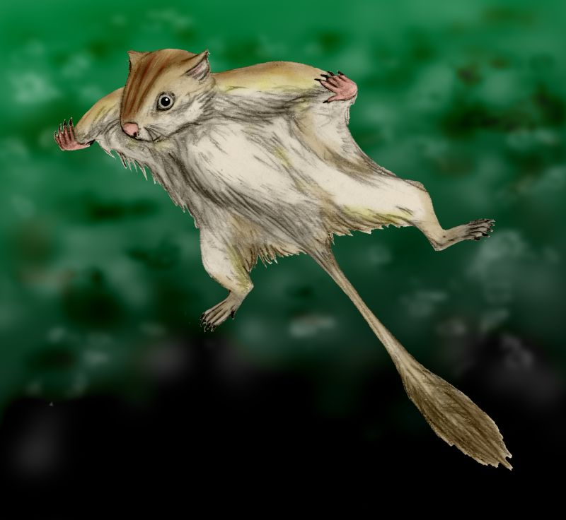 Eomys quercyi, the flying gopher from the Oligocene of Europe, pencil drawing, digital coloring